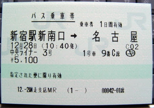 JR Highway bus "Chūō Liner" ticket.